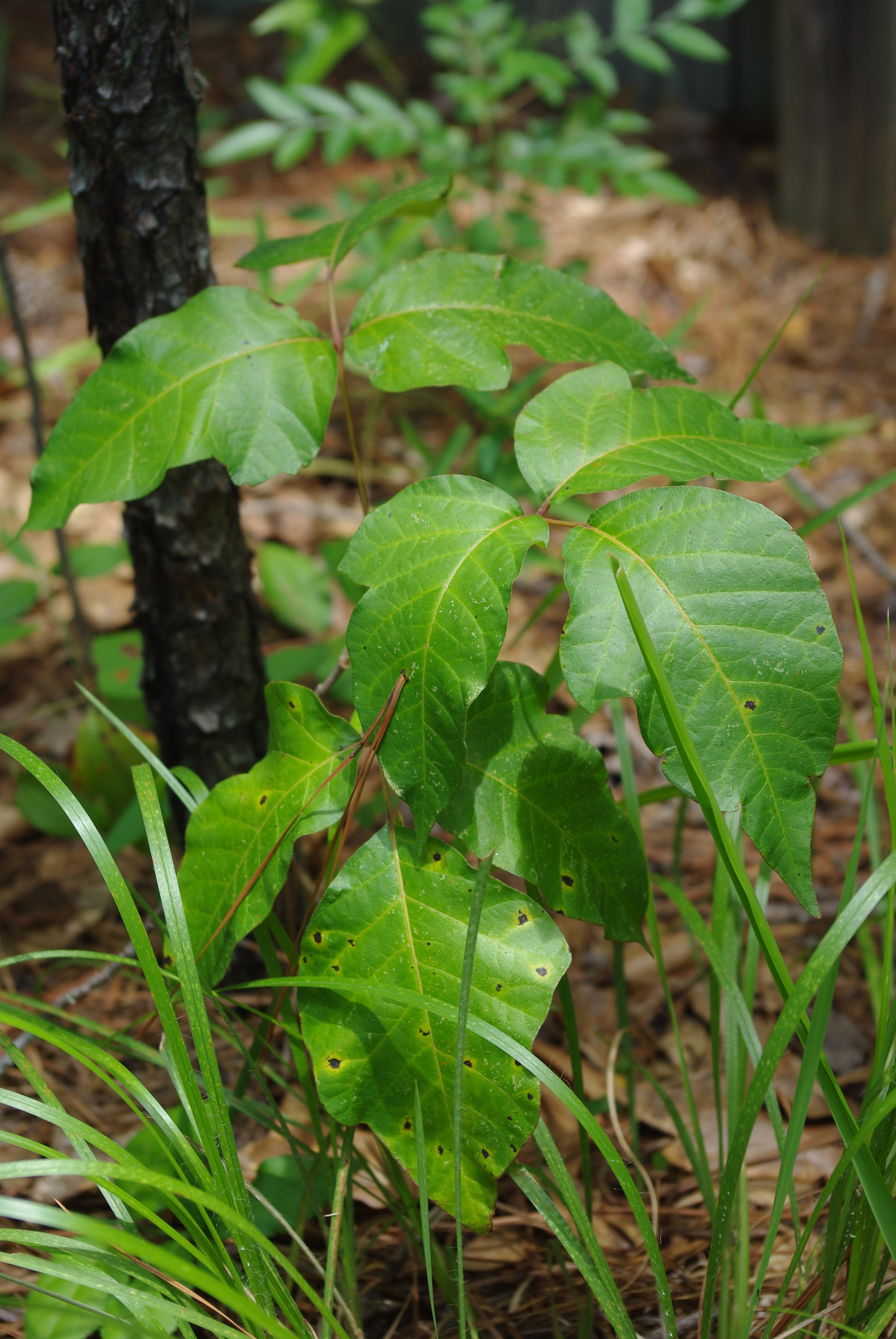 A summertime depiction of a small Poison ivy plant (approx 15cm) growing alongside a pine tree